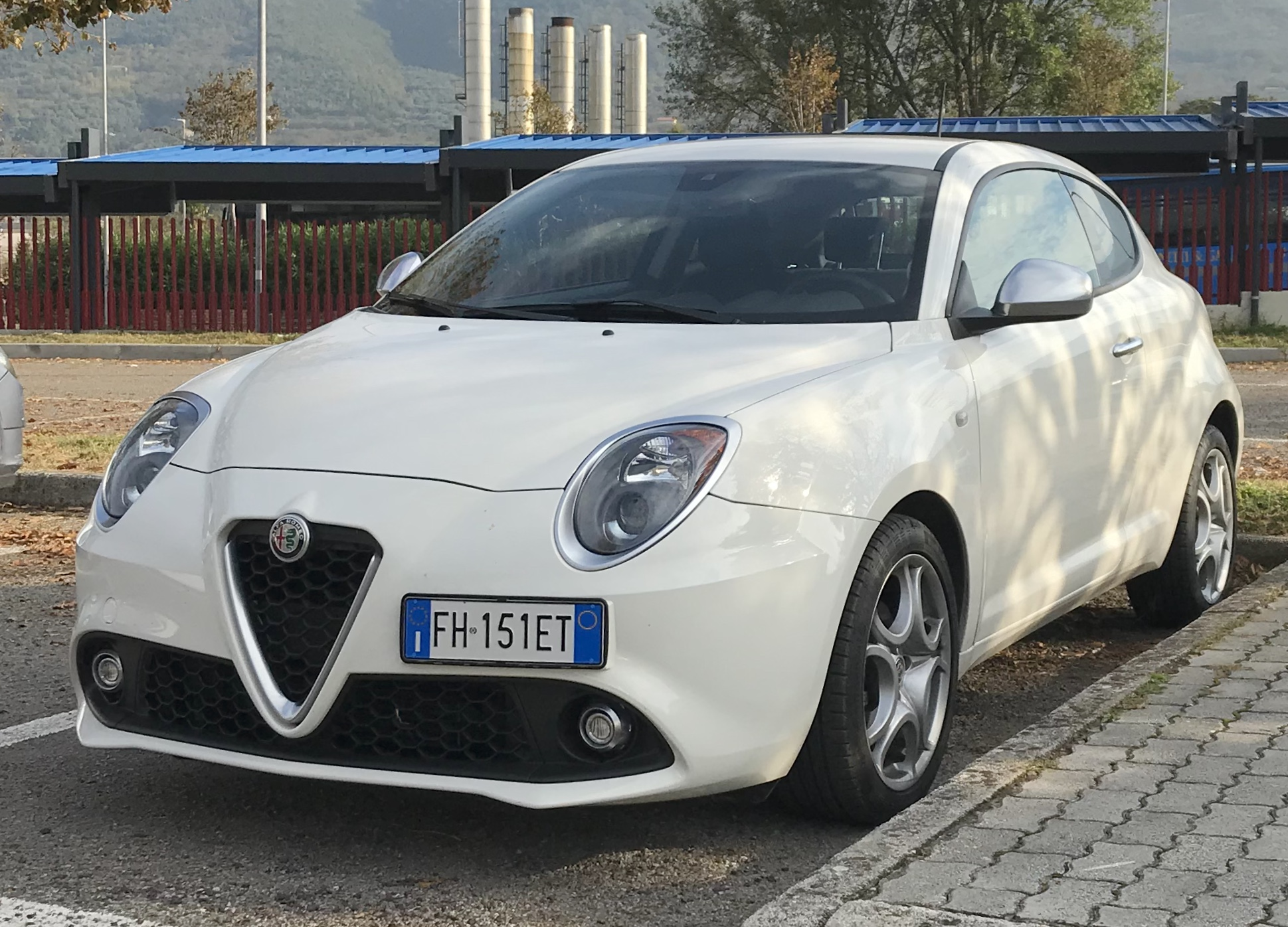 2018 Alfa Mito facelift